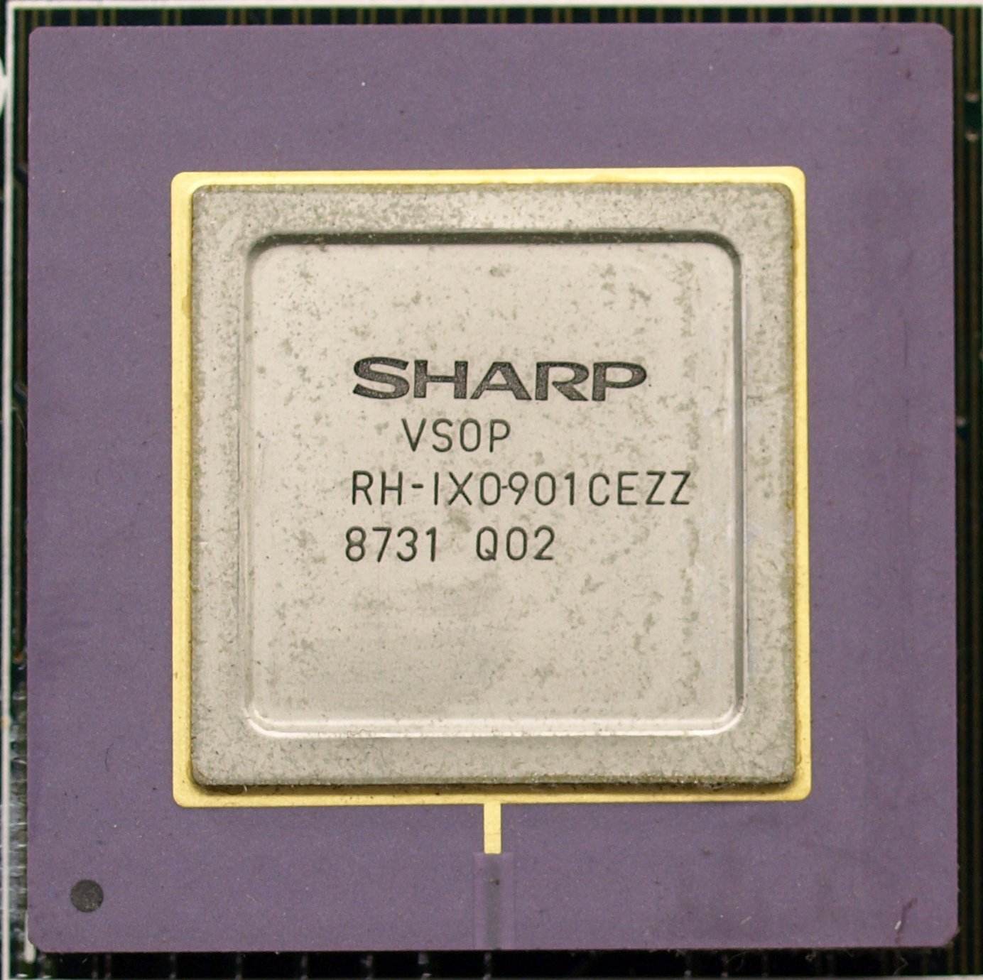 VSOP Video Processing Chipset in the Sharp X68000 Computer. Original 1987 CZ-600C model